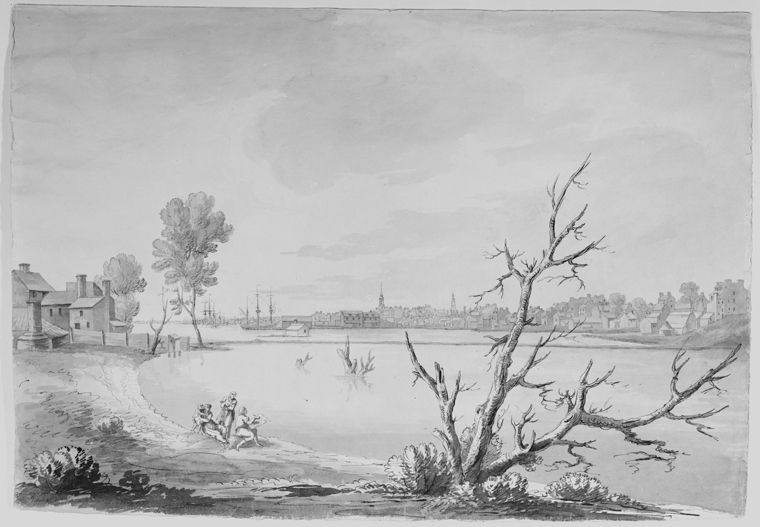 "View of Philadelphia." [Lieutenant General Royal Engineers] Archibald Robertson, November 28, 1777. Drawing in sepia. 38 x 54.3 cm. Source: Spencer Collection, New York Public Library